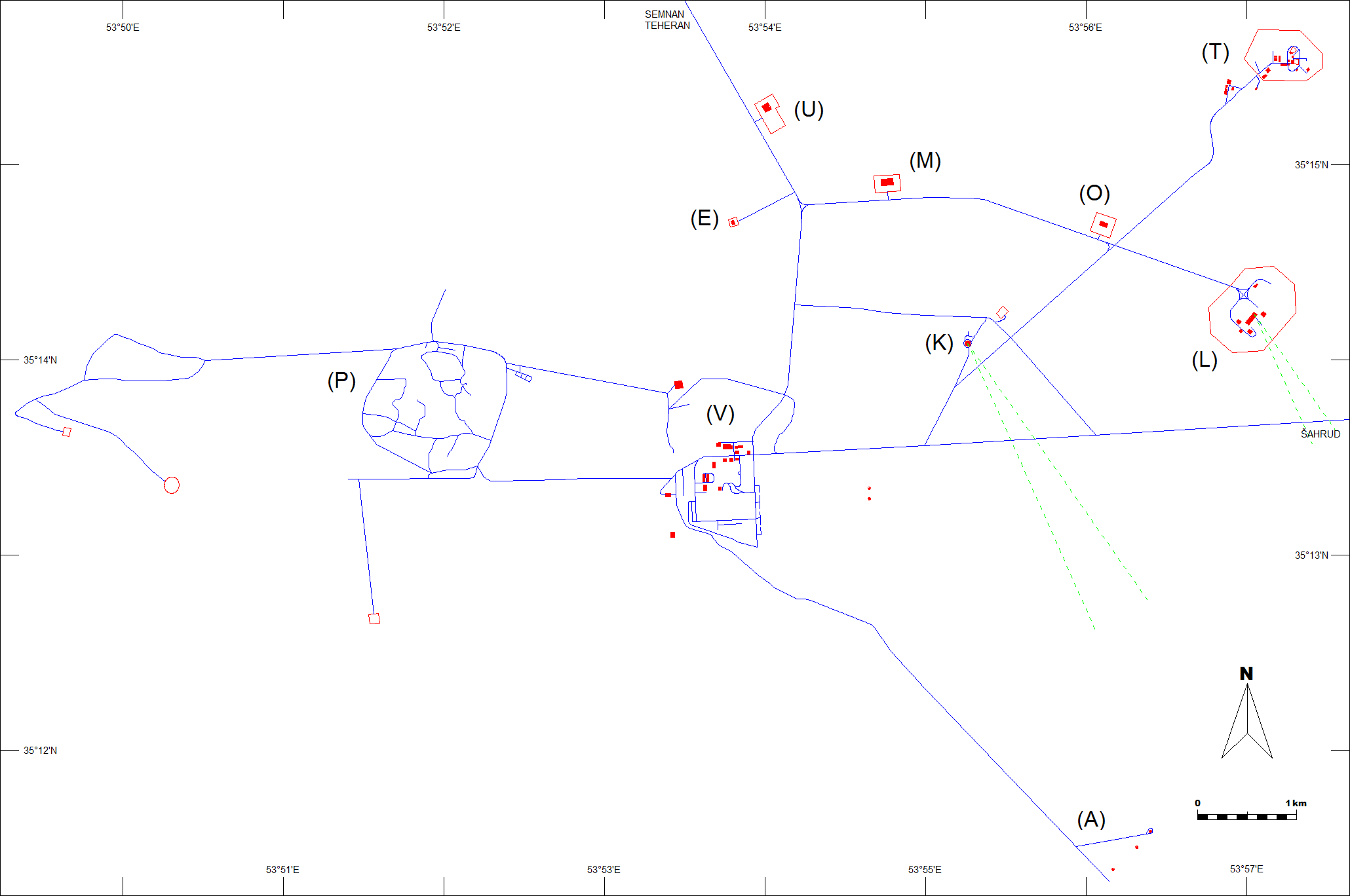 Map of Imam Khomeini Space Center Srpskohrvatski / српскохрватски: Karta Svemirskog centra Imam Homeini